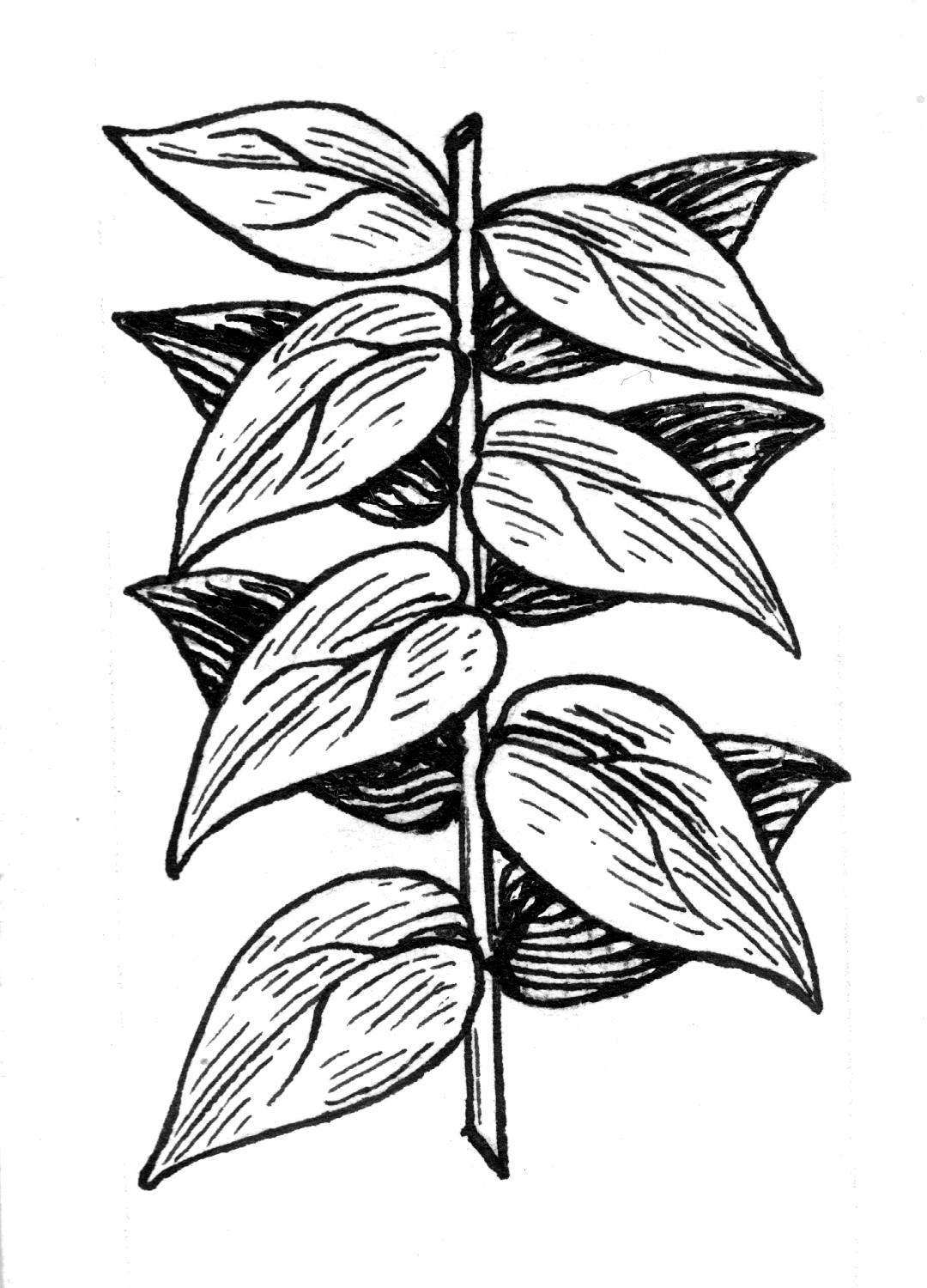 Diagram of decussate leaves.